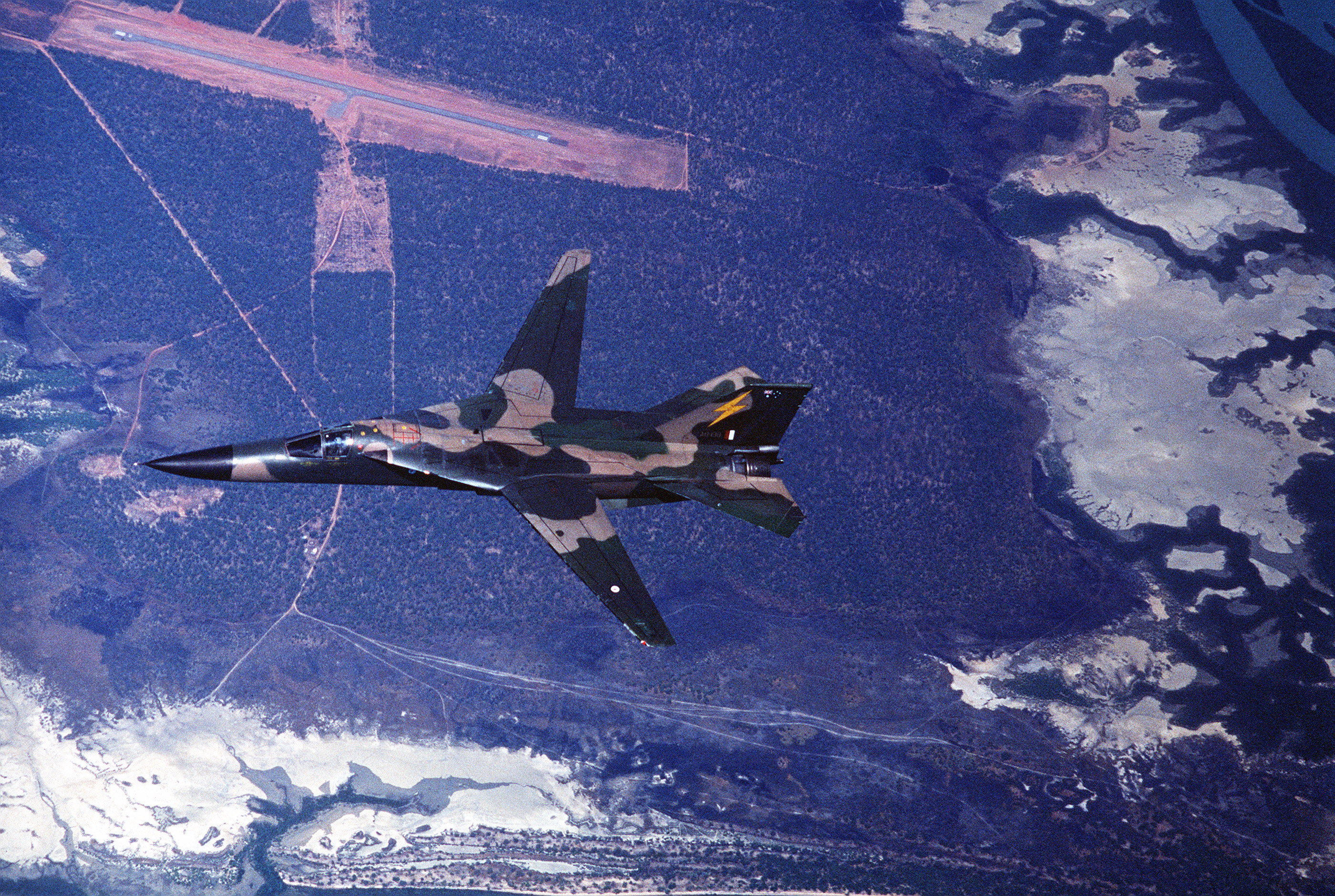 A Royal Australian Air Force (RAAF) F-111C aircraft flies high over an airfield during the joint Australian/U.S. exercise Kangaroo '89